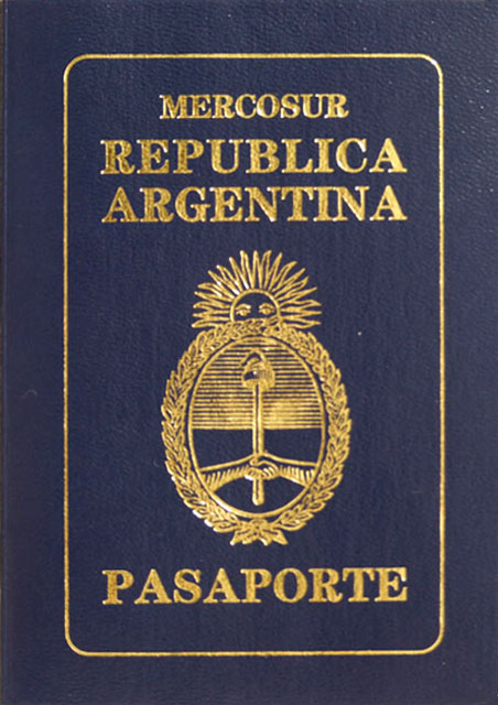 Cover of a Mercosur Argentine passport